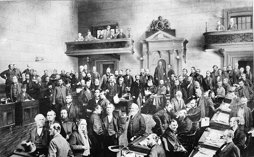 Composite photograph entitled First Parliament of Ontario, depicting the Members of Parliament in session in the Legislative Chamber of the Parliament Buildings, built in 1832, which were located on Front Street West, Toronto, Canada. A key diagramme identifies each of the members in this photograph.